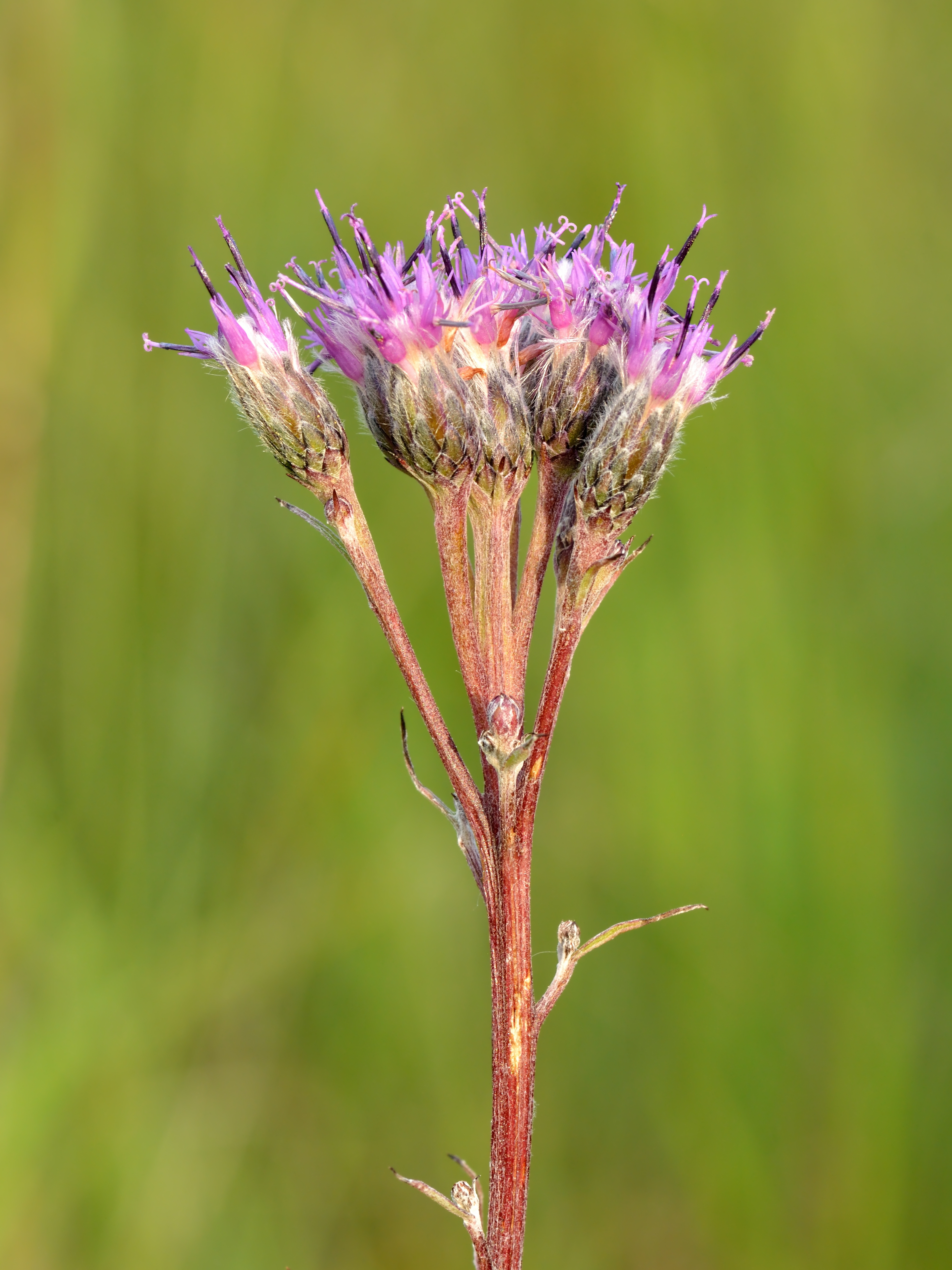 Estonian saw-wort (Saussurea alpina esthonica), endemic subspecies of the Alpine saw-wort. Niitvälja Bog, Northwestern Estonia.